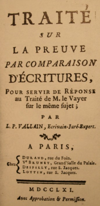 Title page of Louis-Pierre Vallain treatise.